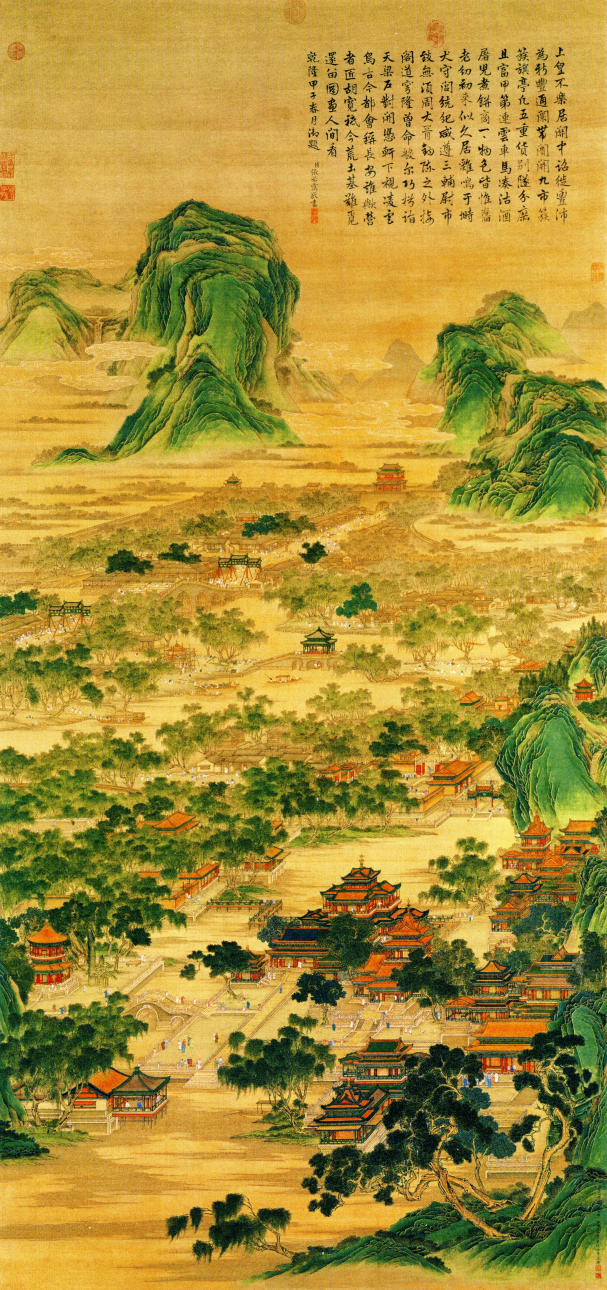 "The New City of Feng" (畫院本新豐圖) Ink and color on silk. Width 96.4 cm, Height 203.8 cm. Located in National Palace Museum, Taibei. The founder of the Han Dynasty Liu Bang originally came from the city of Feng. In order to please his father, he modified part of the new Han capital at Chang An to resemble the original city of Feng County, going so far as to import residents from that city to populate the new city. This painting commemorates that city. The inscription is poetry from the Qianlong Emperor.